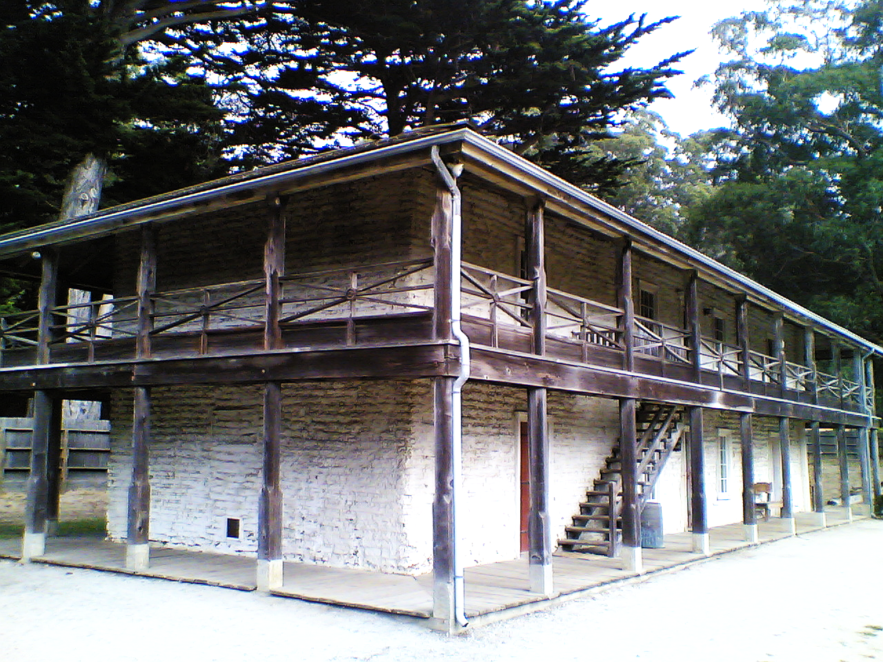 Photograph of the Sanchez Adobe, viewed from the southwest, October 22, 2006.